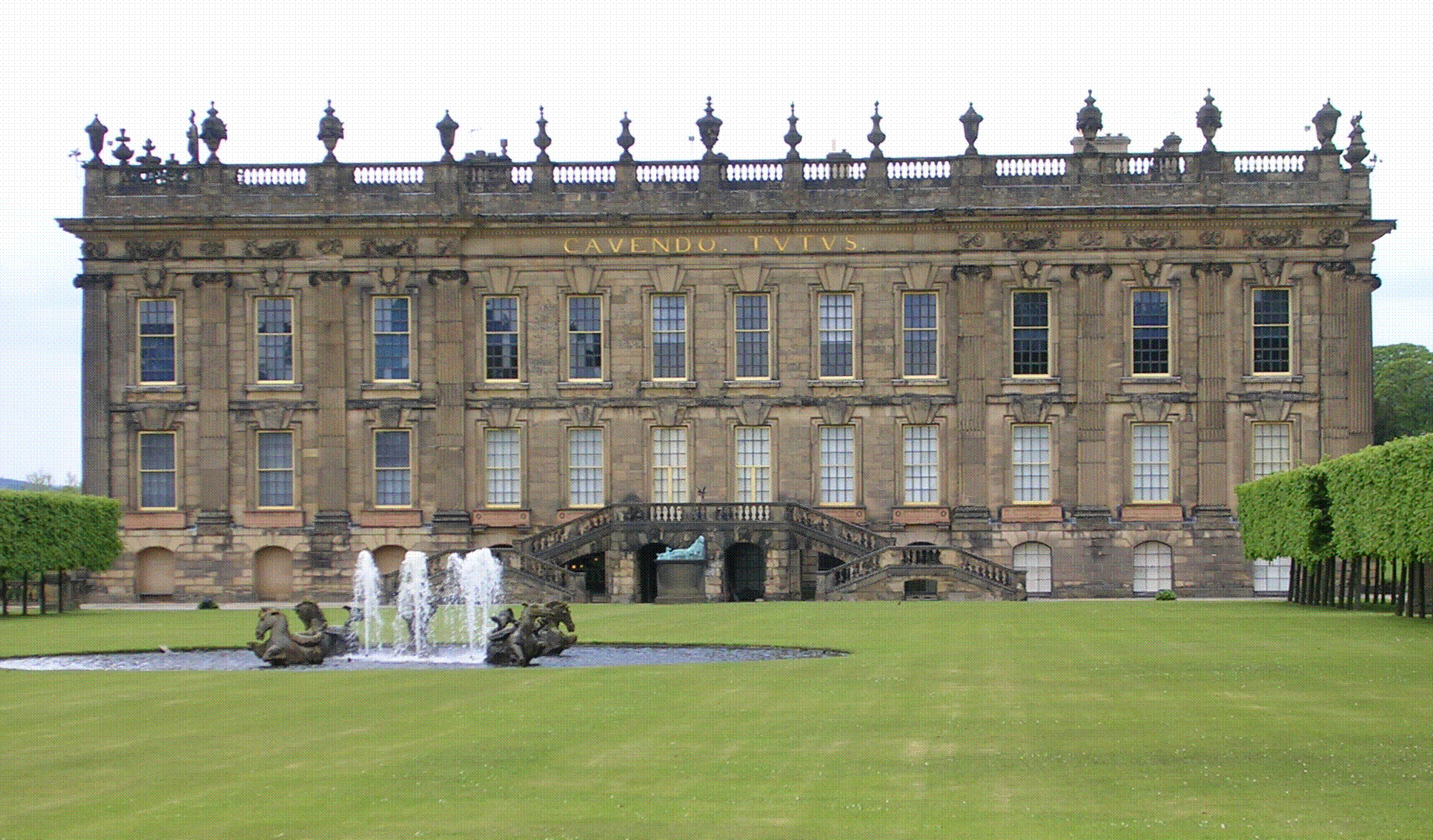 Chatsworth House. View of the south front, with the Dukes of Devonshire's motto "Cavendo tutus".